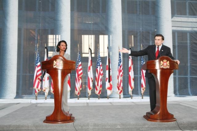 Secretary Rice Visit to Georgia. Secretary of State Condoleezza Rice and Georgian President Mikheil Saakashvli at the Press Conference.